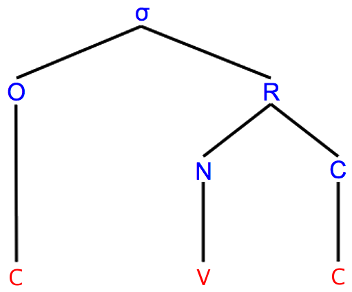 metrical tree representation of CVC syllable structure σ = syllable O = onset R = rime N = nucleus C = coda